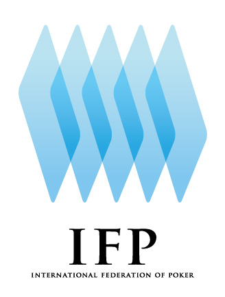 The updated official logo of the International Federation of Poker (IFP).